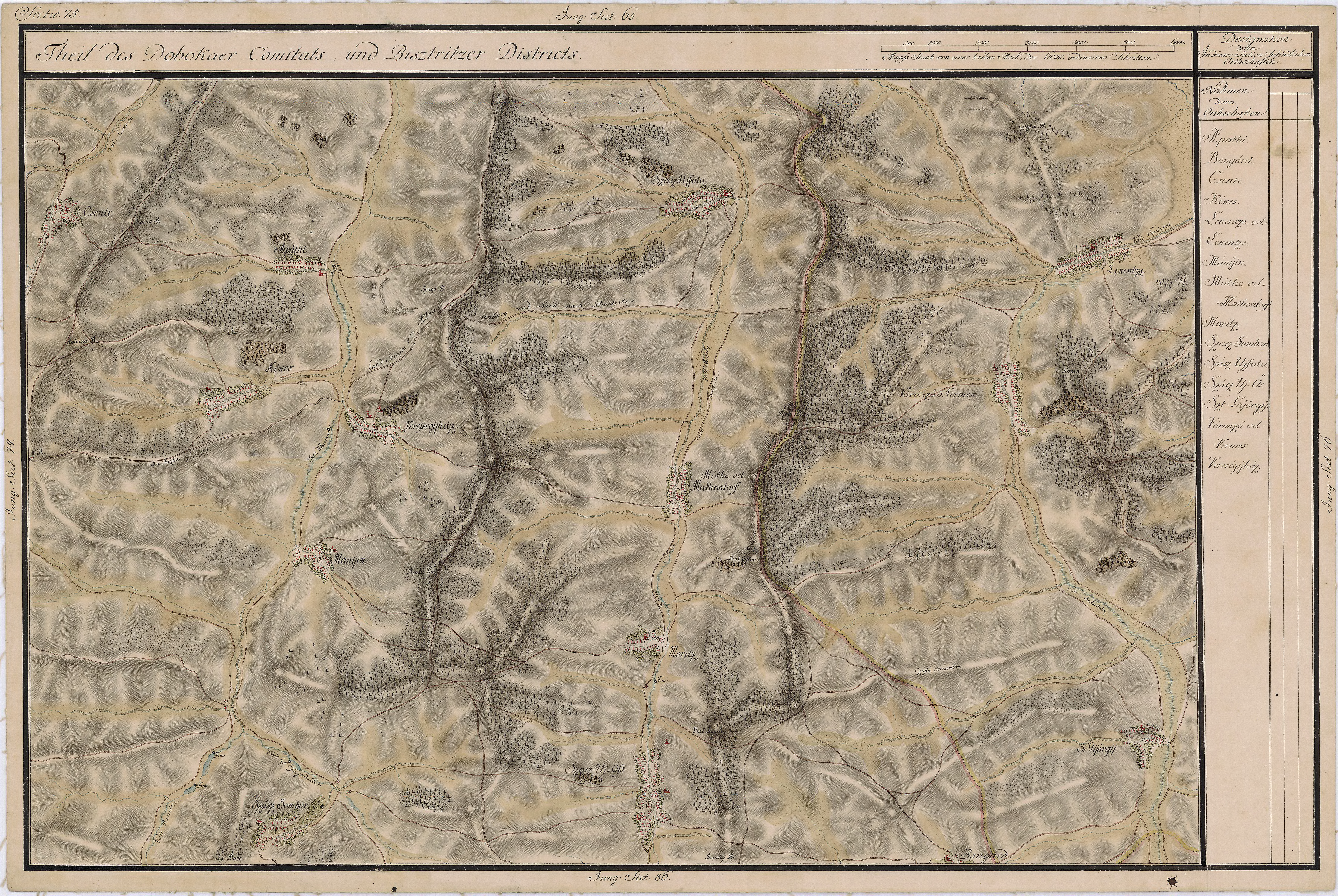 Grand Duchy of Transylvania, 1769-1773. Josephinische Landaufnahme pg.075